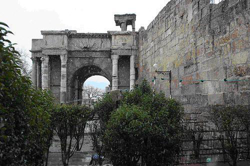 Ancient Roman Arch of Caracalla — in Tébessa (Theveste), Algeria.